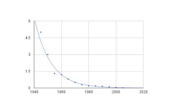 Passengers who died each year on commercial flights, for every 160 million km distance, excluding malicious acts